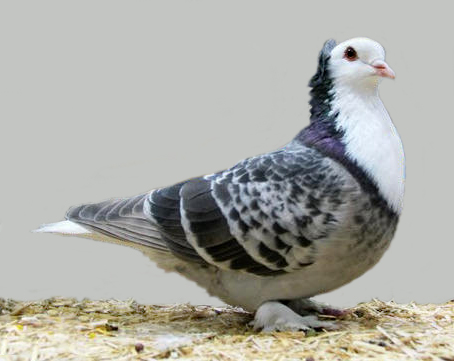 Thuringian White Head (Blue Chequer)